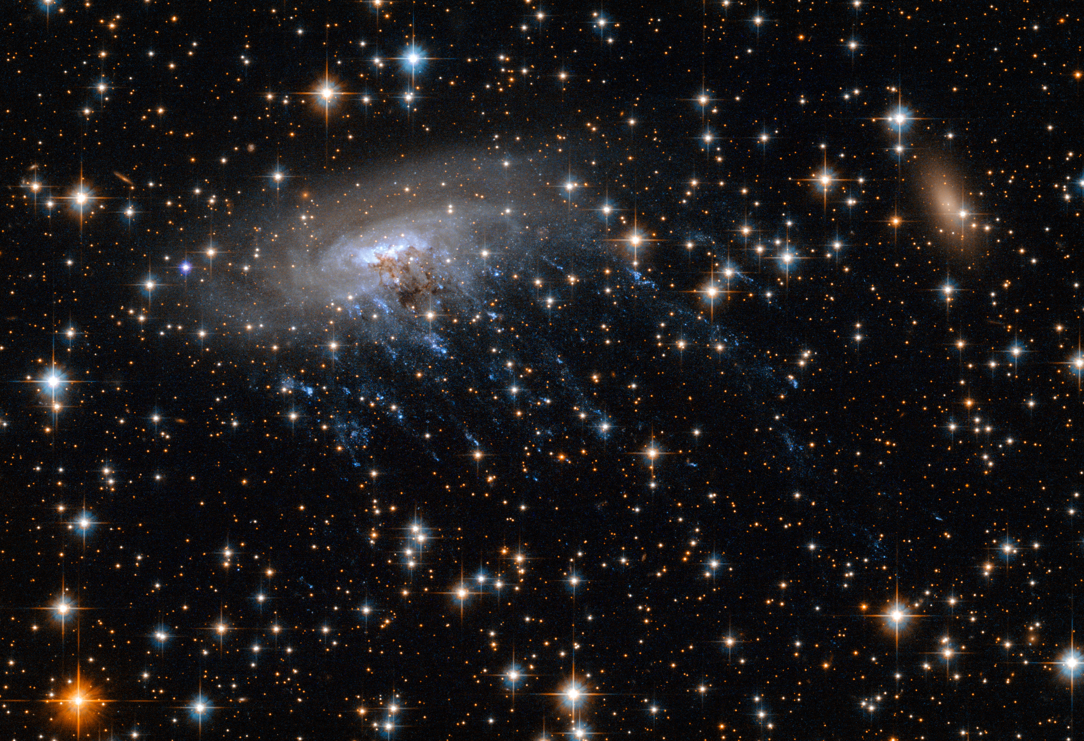 This new Hubble image shows spiral galaxy ESO 137-001, framed against a bright background as it moves through the heart of galaxy cluster Abell 3627. This image not only captures the galaxy and its backdrop in stunning detail, but also something more dramatic — intense blue streaks streaming outwards from the galaxy, seen shining brightly in ultraviolet light. These streaks are in fact hot, wispy streams of gas that are being torn away from the galaxy by its surroundings as it moves through space. This violent galactic disrobing is due to a process known as ram pressure stripping — a drag force felt by an object moving through a fluid.